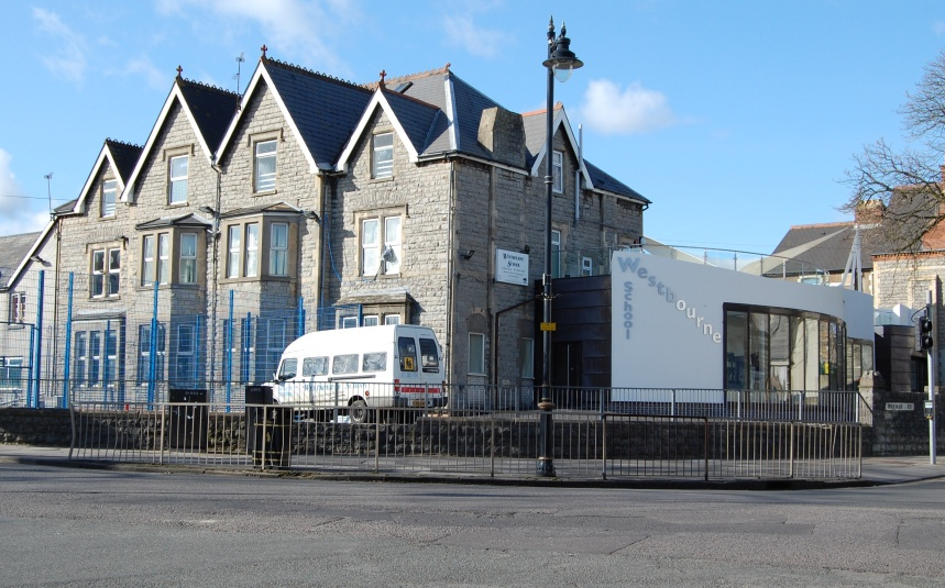 Westbourne House School